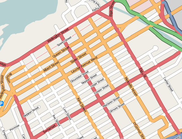 This map may be incomplete, and may contain errors. Don't rely solely on it for navigation.